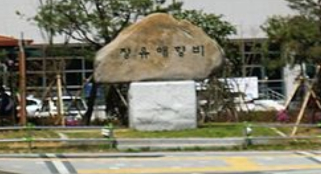 Ieejanghukk